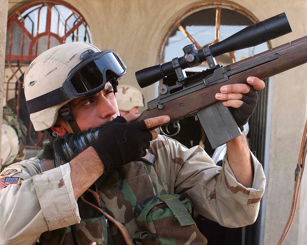 A sniper peers through his sight at potential enemy targets moving along the rooftop of a nearby building during a search mission in Al Fallujah, Iraq. The paratrooper is assigned to the 82nd Airborne Division's 1st Battalion, 505th Parachute Infantry Regiment. The rifle is an M14 with a Leupold Mark 4 LR/T 10 x 40 mm M3 without illuminated reticle.